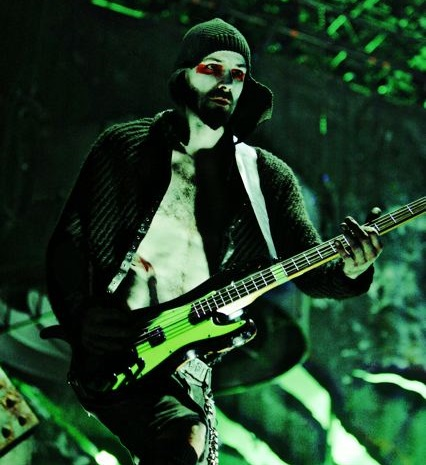 Rammstein_Lifad_Tour_Berlin